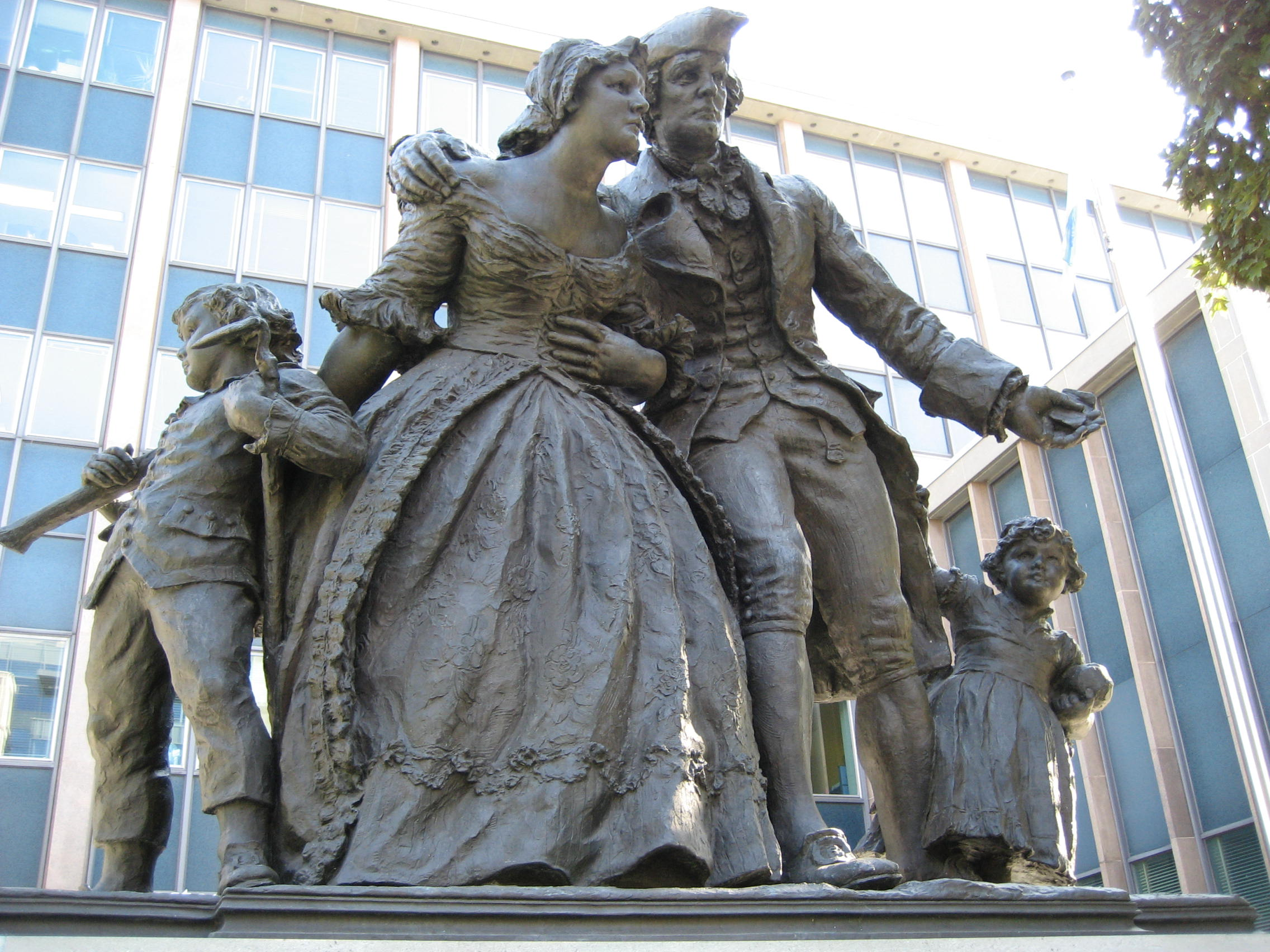 United Empire Loyalists statue, in front of McMaster University, downtown Hamilton, at Main Street East.